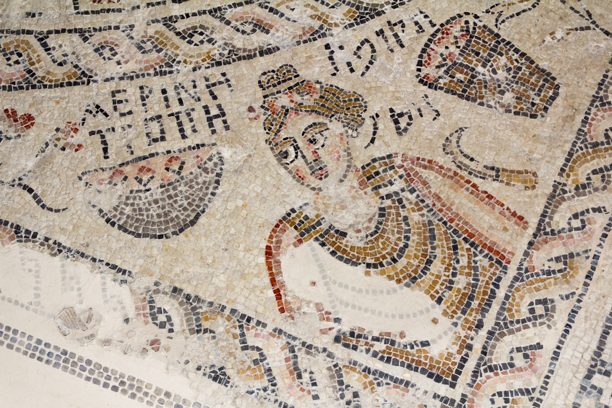 Mosaic at the Sepphoris Synagogue